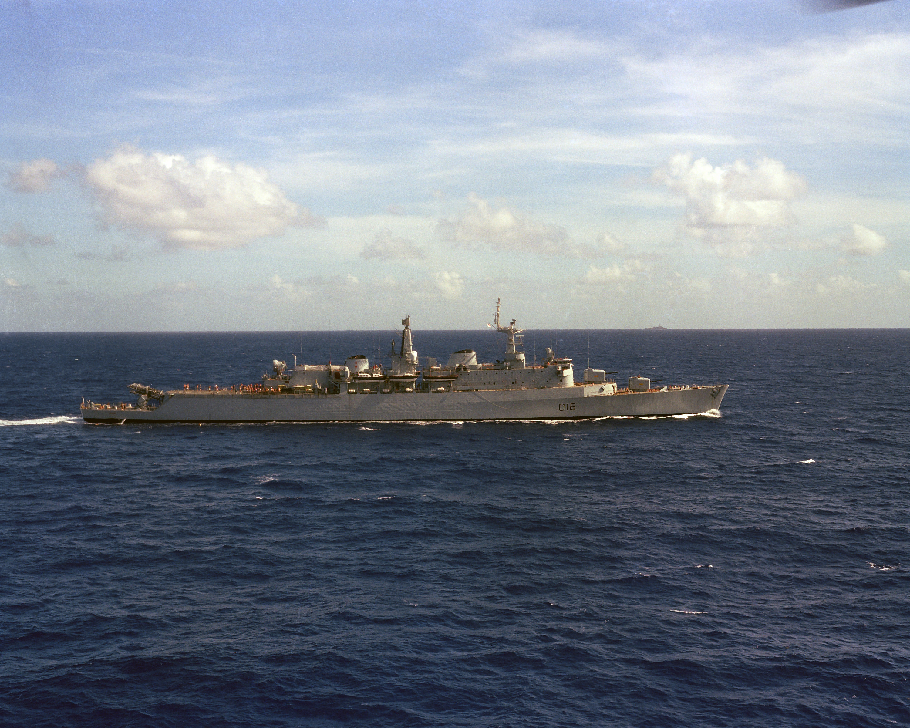 The British destroyer HMS London (D16) underway in 1981.